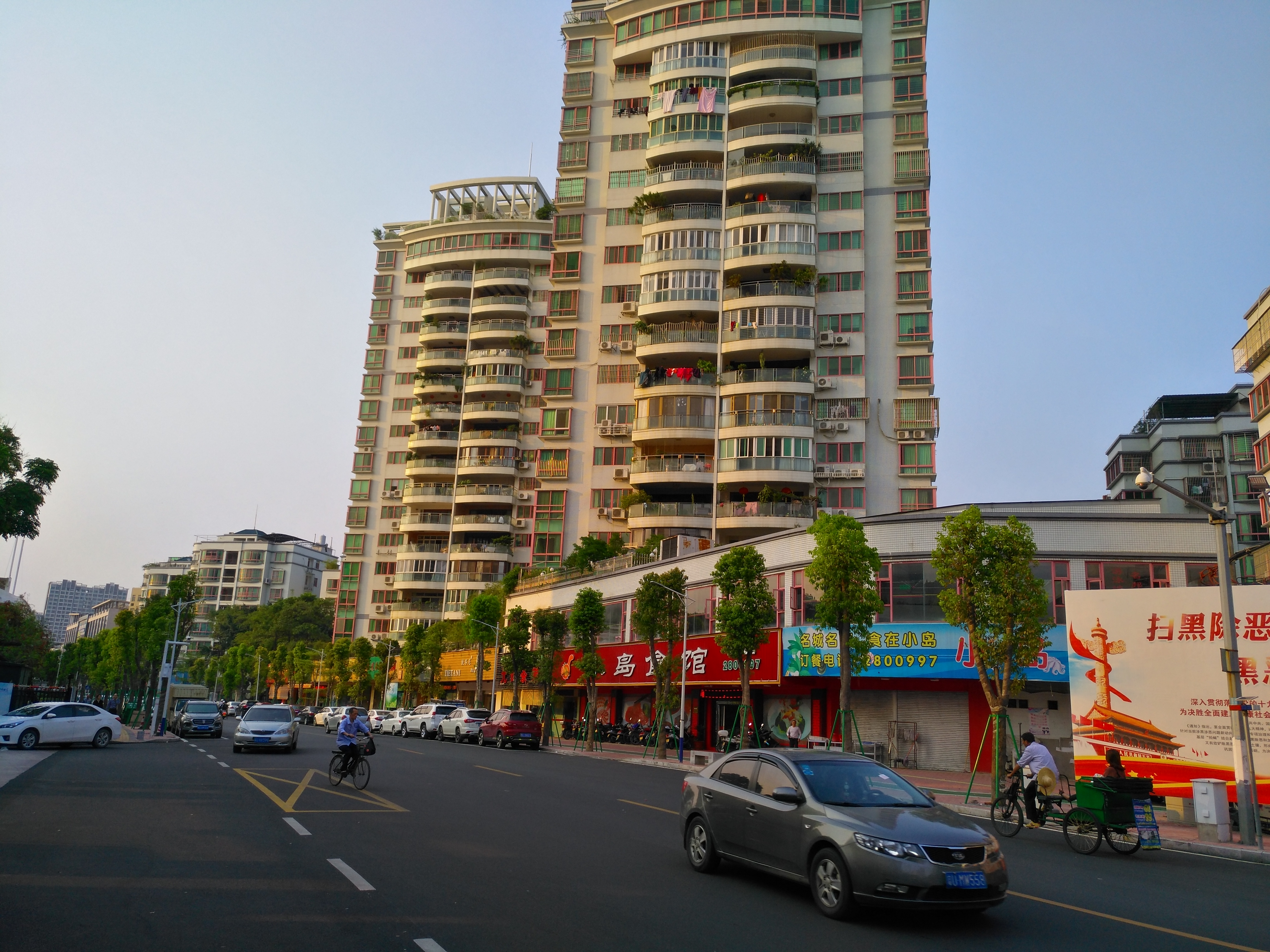 Dianxin Road, Xiangqiao District, Chaozhou City